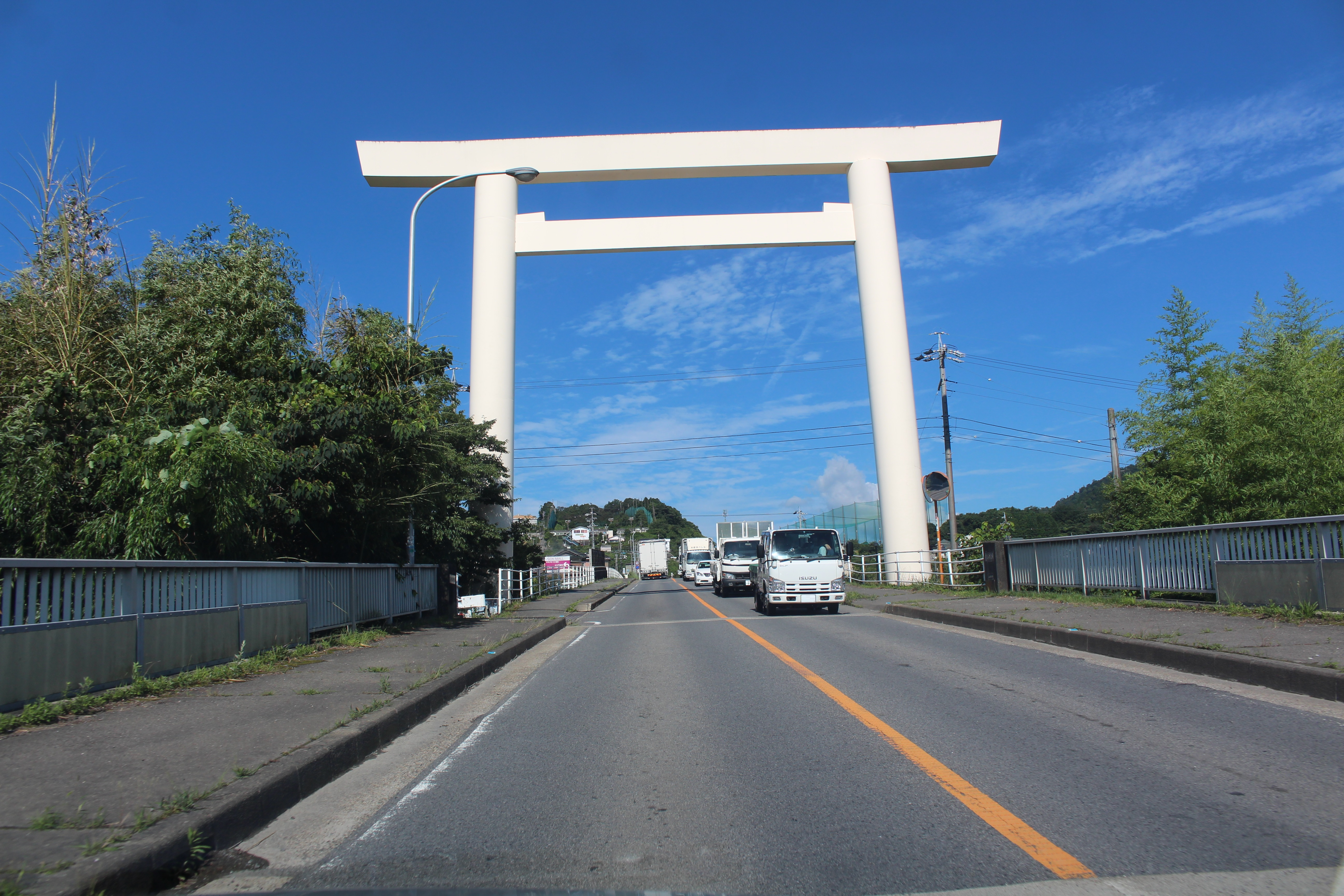 Torii of Tado Shrine over Mie Prefectural Road Route 26, in Kuwana Mie prefecture, Japan.